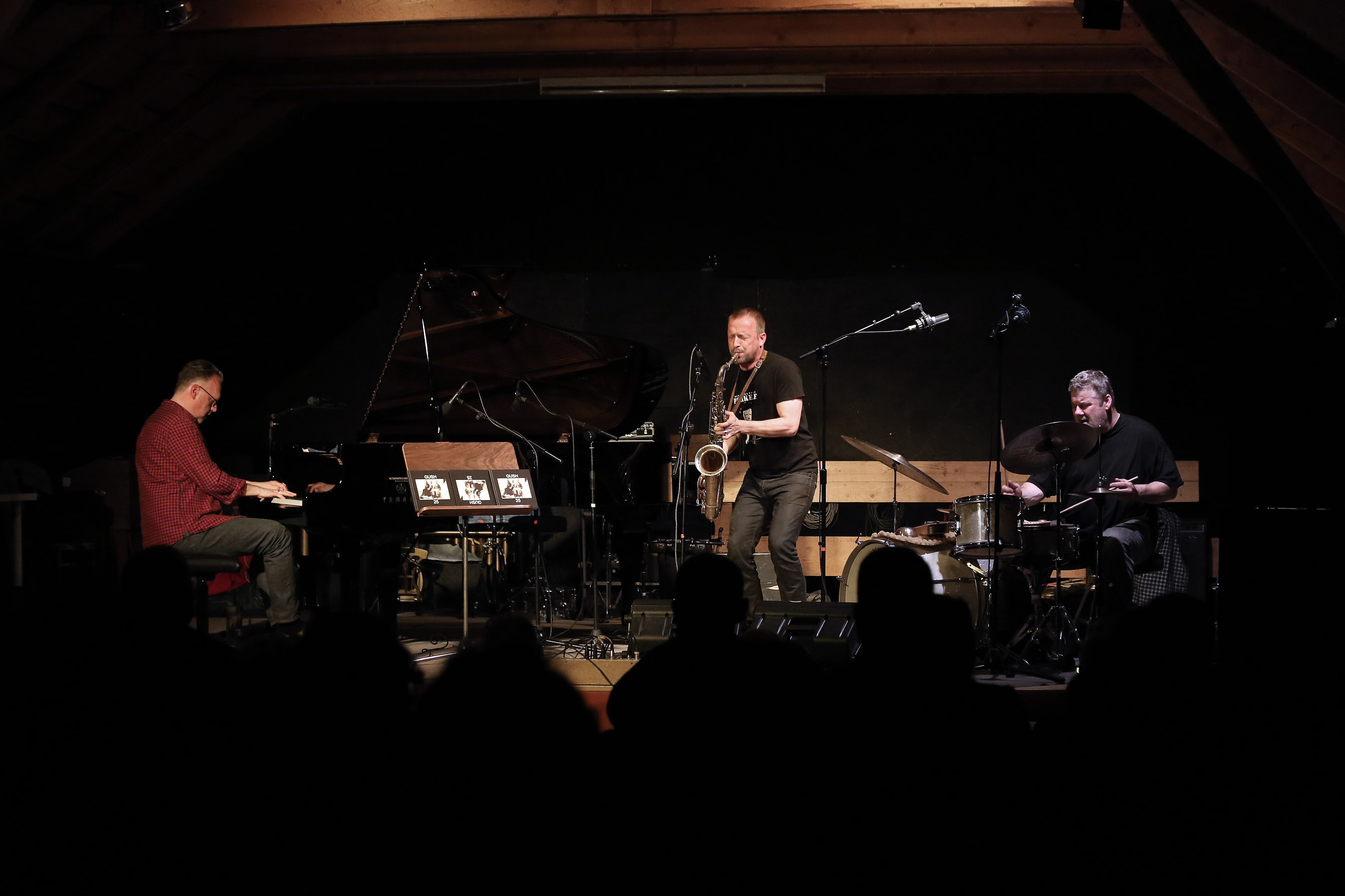 GUSH - Mats Gustafsson, Sten Sandell, Raymond Strid - Ulrichsberger Kaleidophon (Ulrichsberg, Upper Austria)